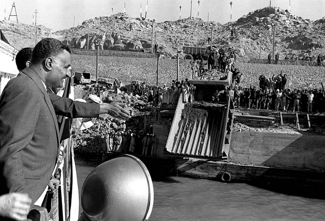 Egyptian President Gamal Abdel Nasser observing the Nile River excursion zone at the construction site of the Aswan High Dam